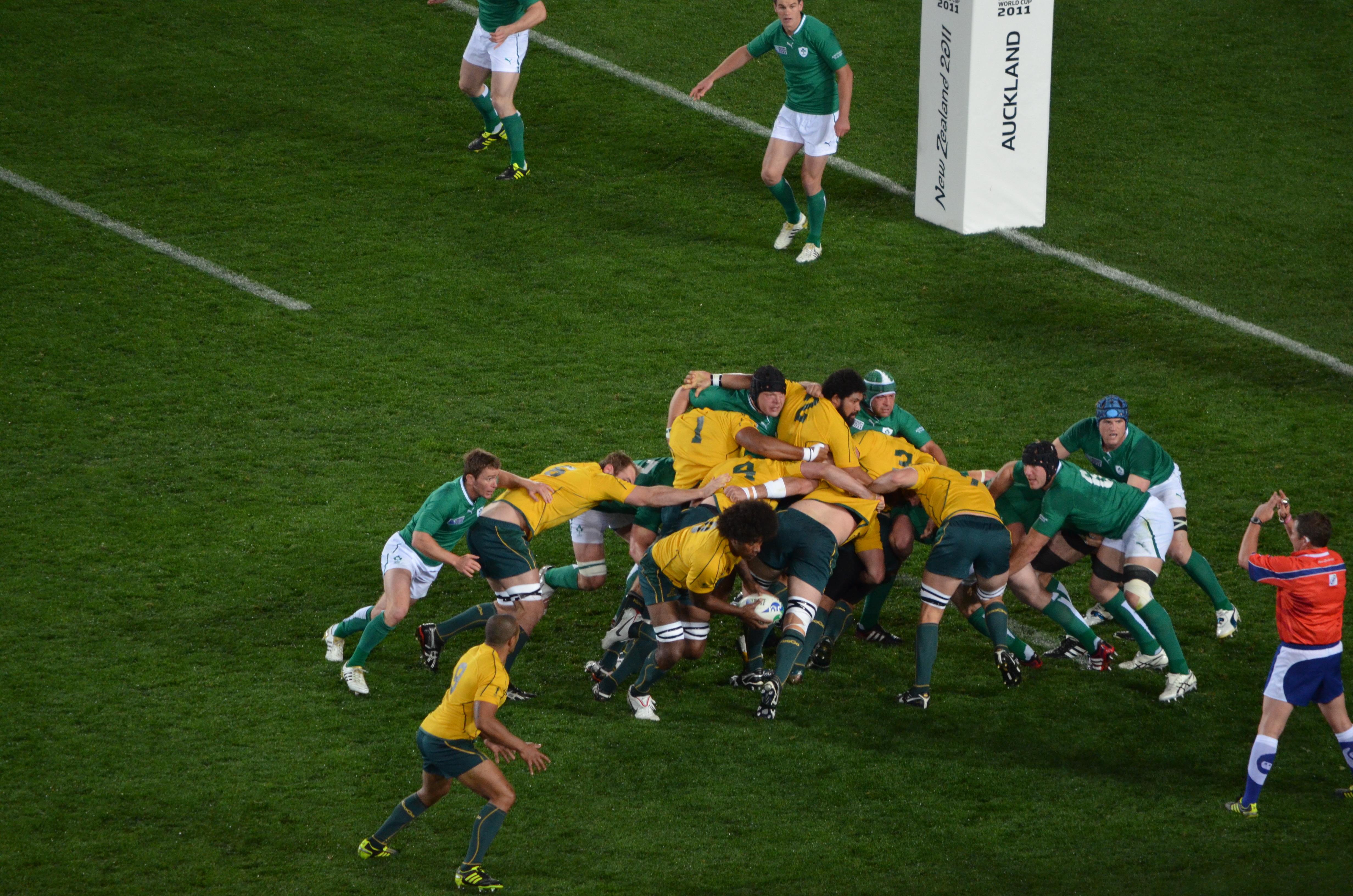 Match between Australia and Ireland during 2011 Rugby World Cup in New Zealand.